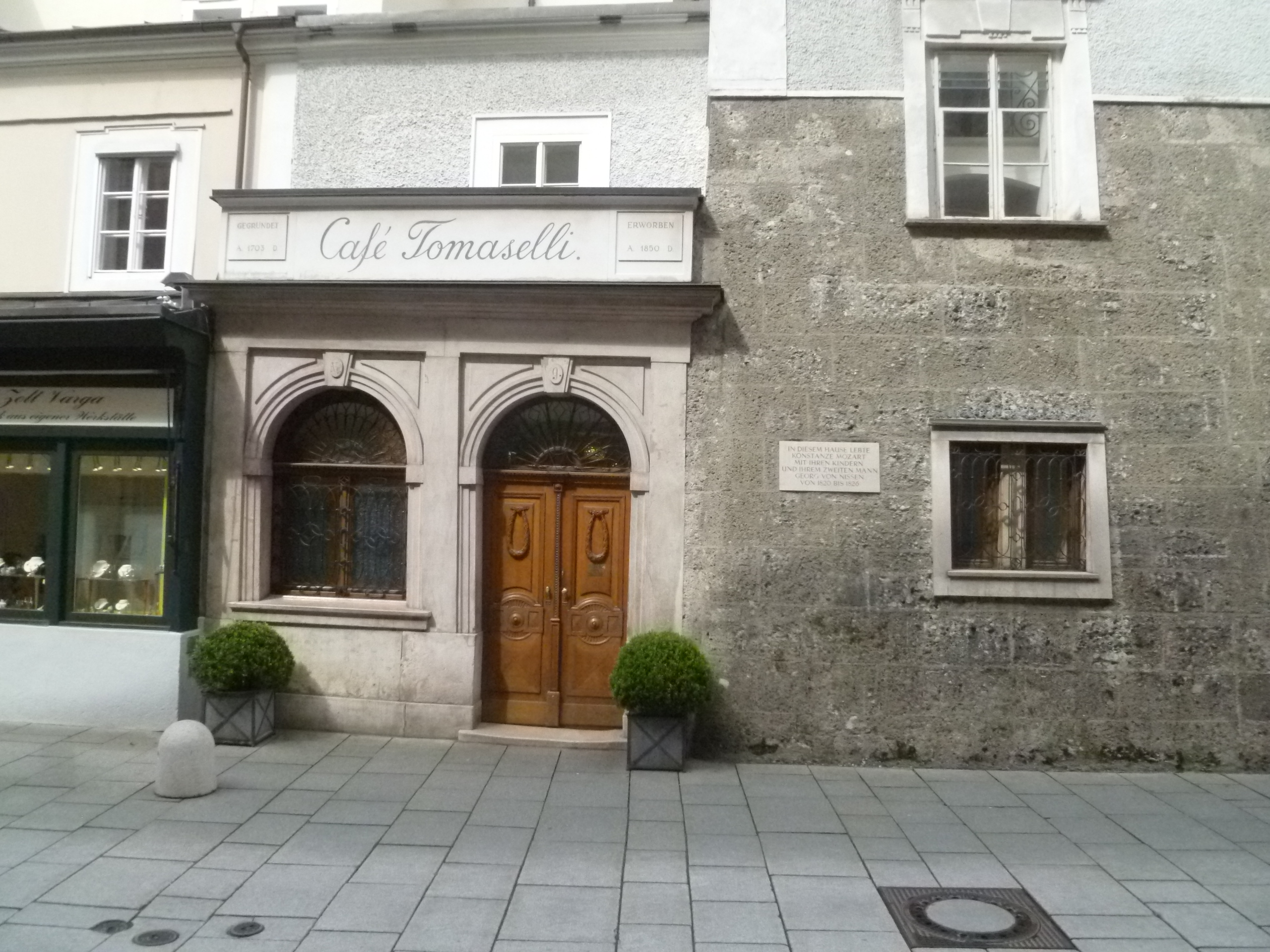 Café Tomaselli where Konstanze, the widow of W.A. Mozart lived with her children and her second husband Georg von Missen from 1820 to 1826; Alter Markt, Salzburg, Austria